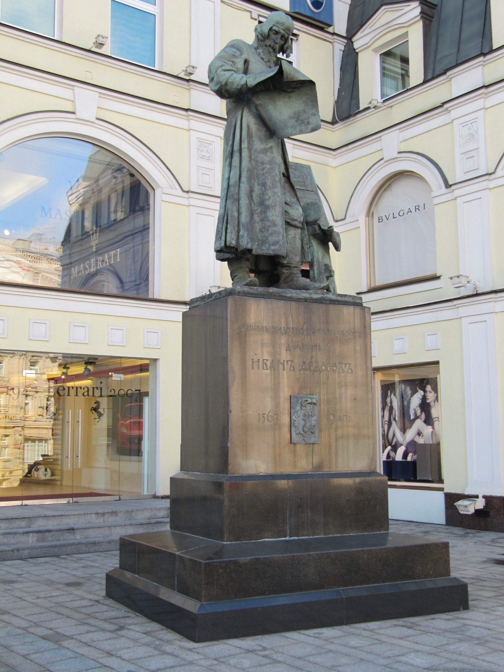 Ivan Fyodorov - first printer of Russia. Sculptor S.M.Volnukhin. Opened in 1909